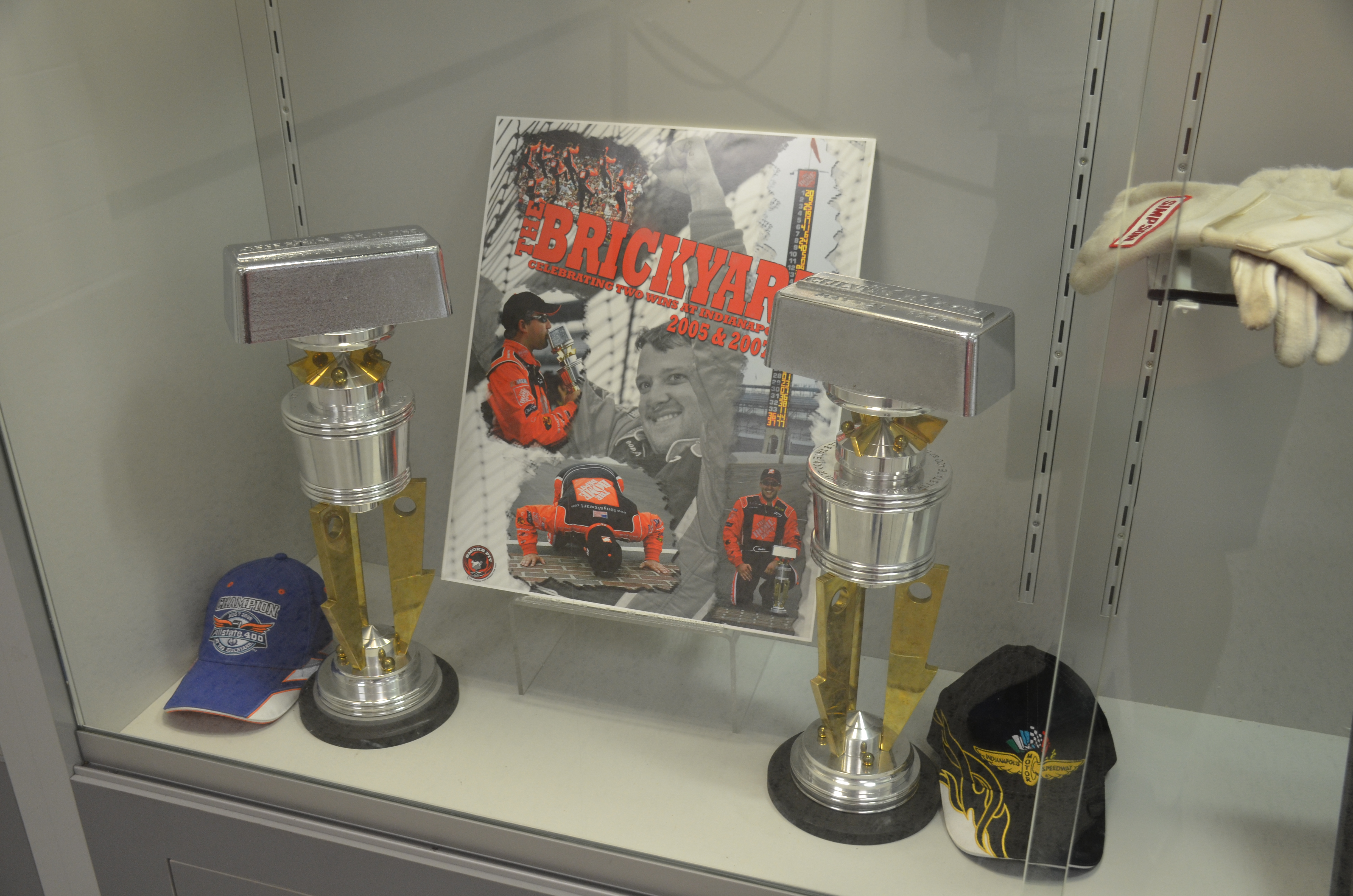 Driver trophies for the Brickyard 400 at the Indianapolis Motor Speedway Museum